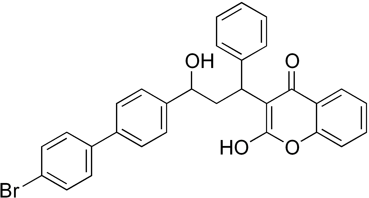 chemical structure of bromadiolone